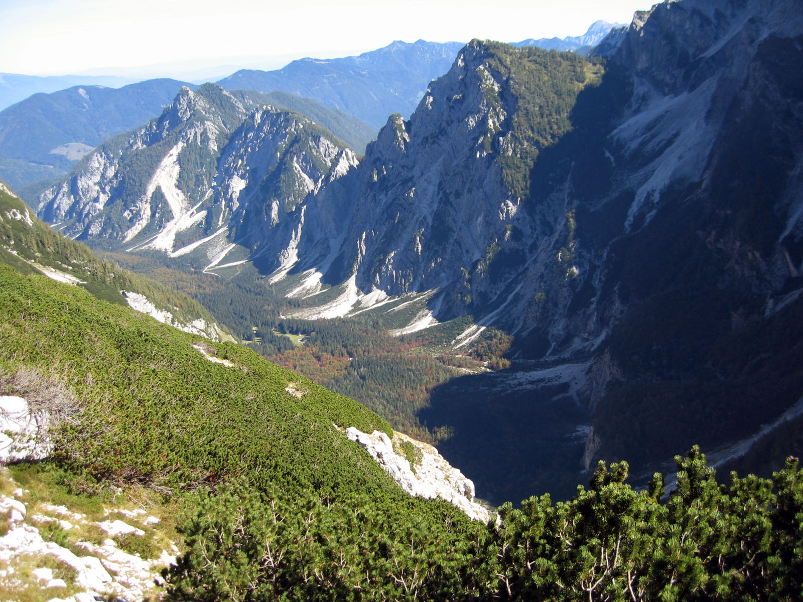 Valleys of Tamar and Planica in Julian Alps, Slovenia.